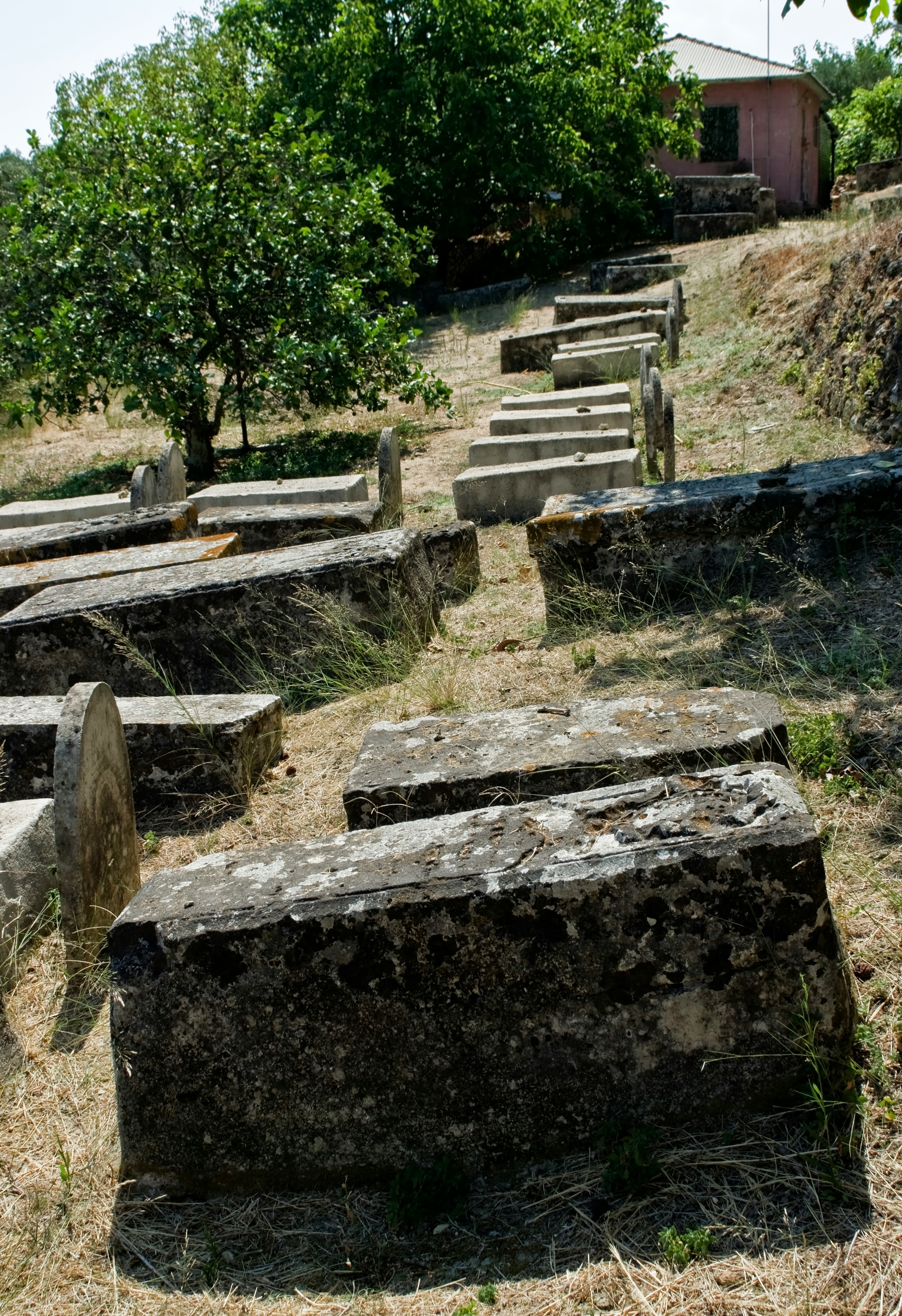 Jewish cemetery in Zakynthos (town)